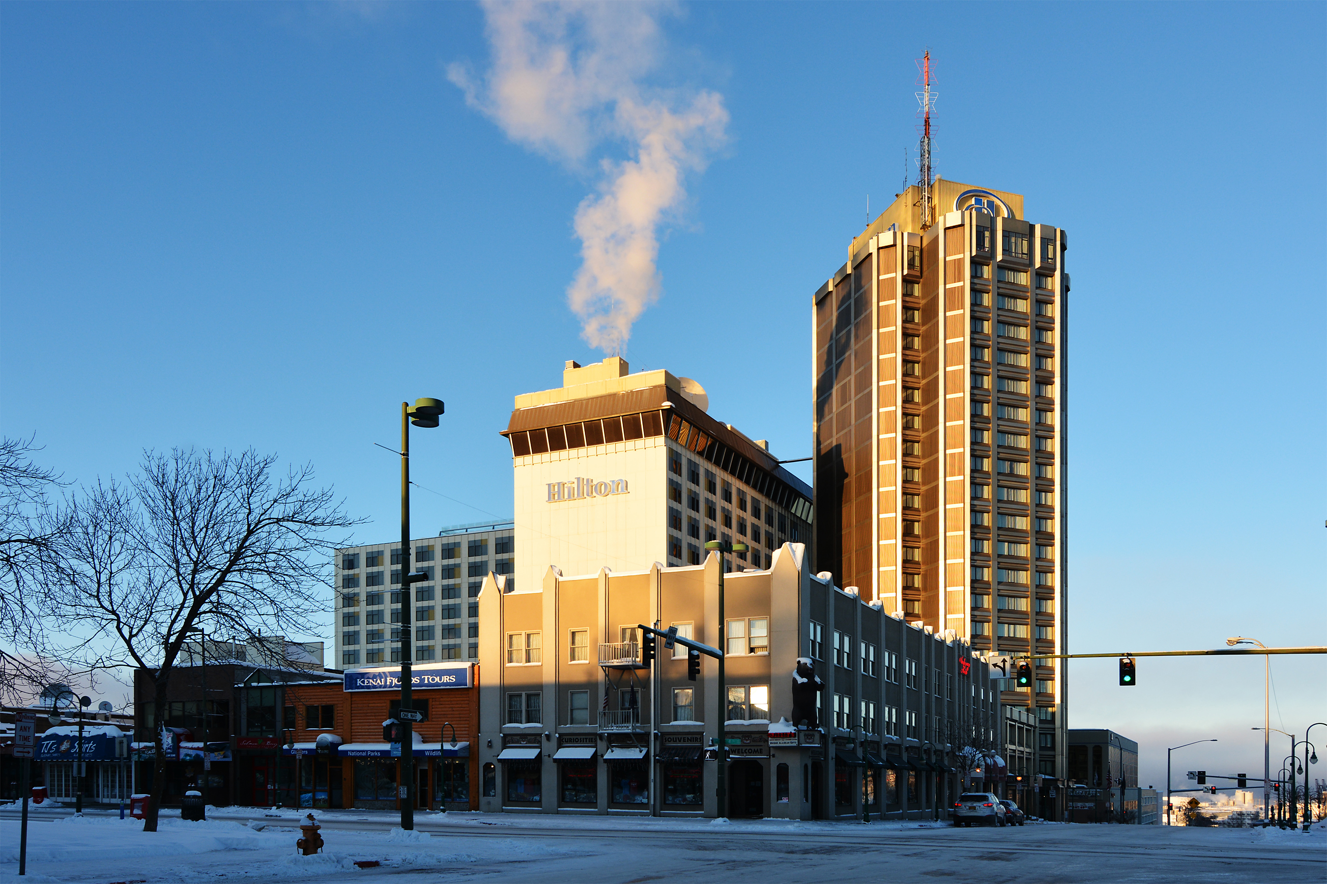 The Hilton Hotel, with other storefronts in the foreground, shot from historic 4th Avenue in Anchorage, Alaska.